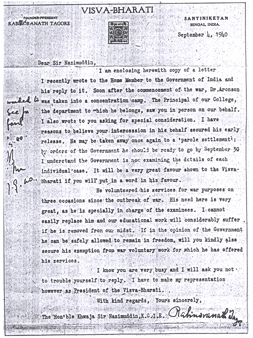 Nobel laureate Rabindranath Tagore's letter to Prime Minister of Bengal Sir Khawaja Nazimuddin requesting the release of German Jewish lecturer Alex Aronson who was detained by the British government in India.